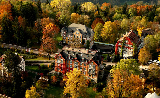 Instituts auf dem Rosenberg Campus Aerial